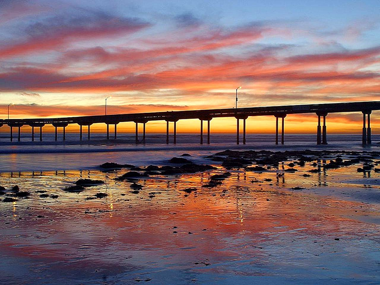 Image title: Sunset at Ocean Beach, San Diego Image from Public domain images website